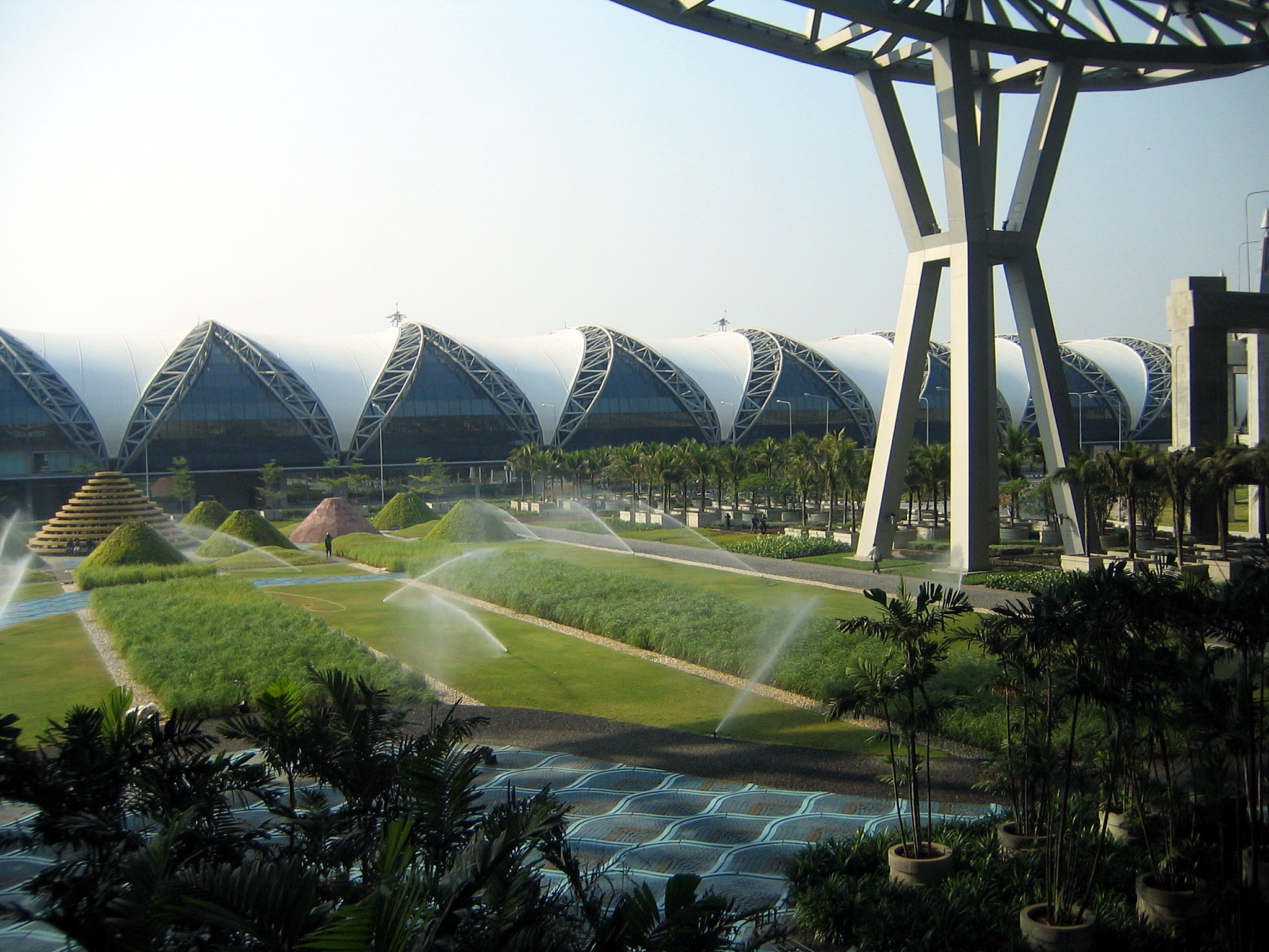 Suvarnabhumi Airport Bangkok Thailand - inner courtyard as photographed from baggage claim room.